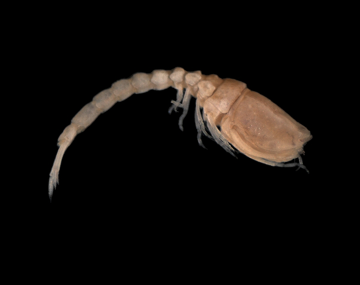 Cumacean photographed with an Axiocam (Zeiss) camera mounted on a Zeiss Stemi C-2000 binocular microscope. Length: ~6 mm This cumacean was sampled on the Belgian Continental Shelf in 1997.